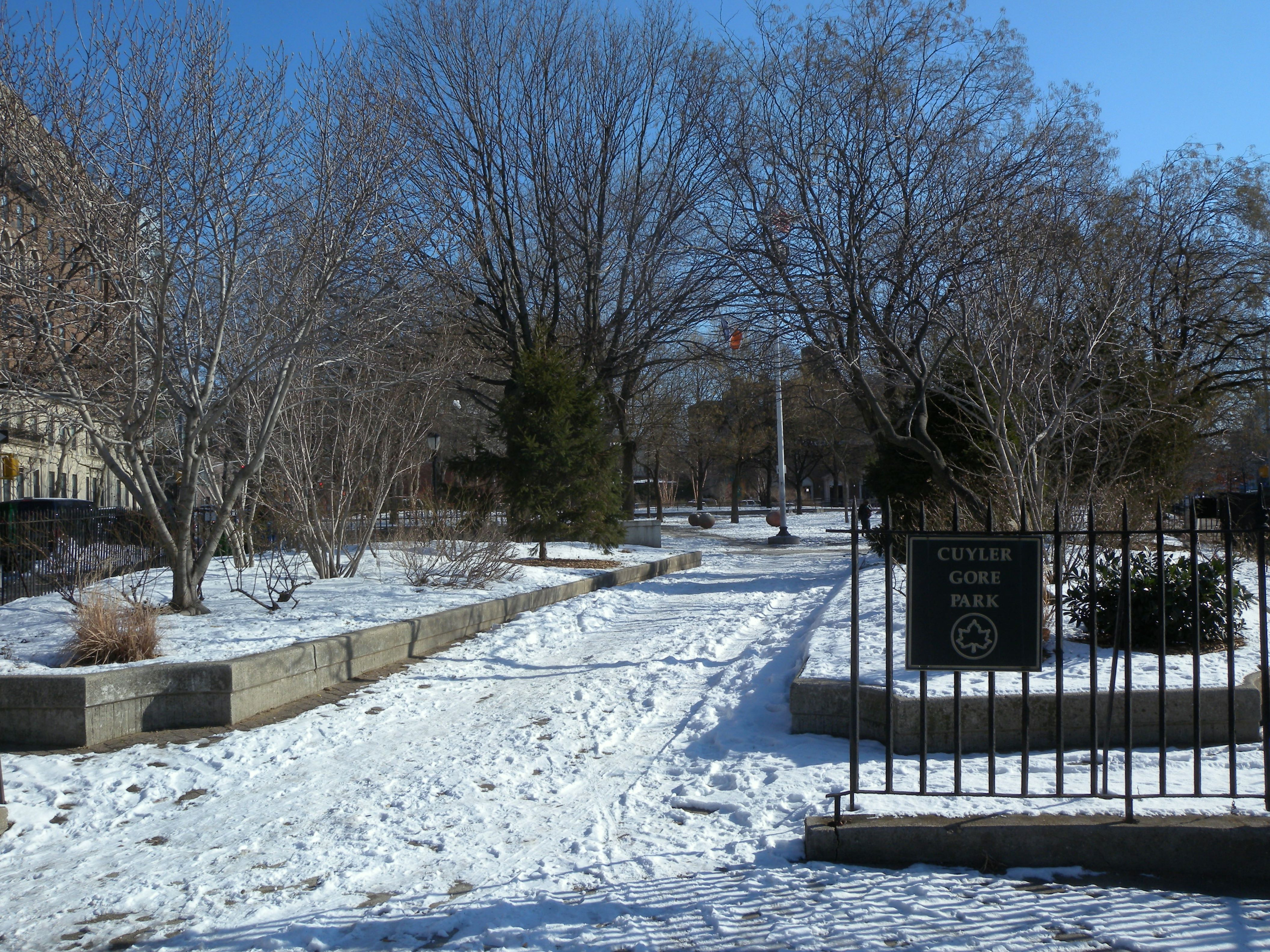 Looking east at Cuyler Gore Park